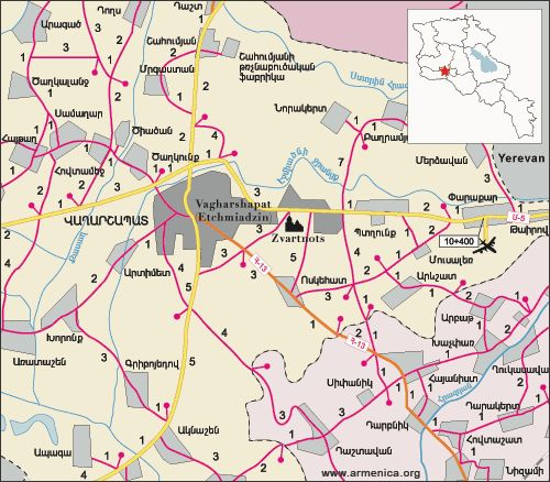 map of west armenia